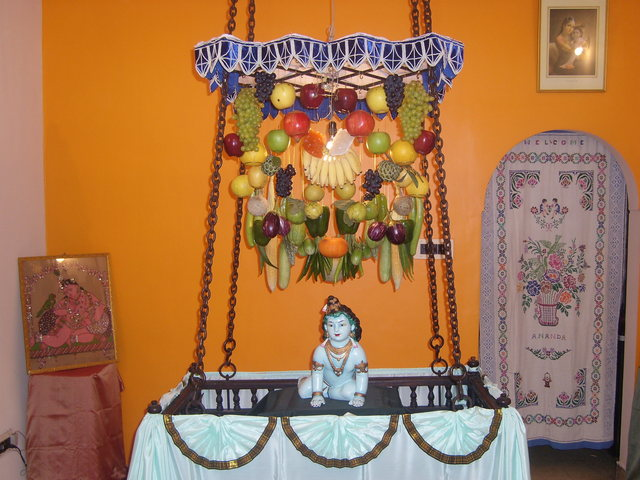 Celebration of Lord krishna's birthday